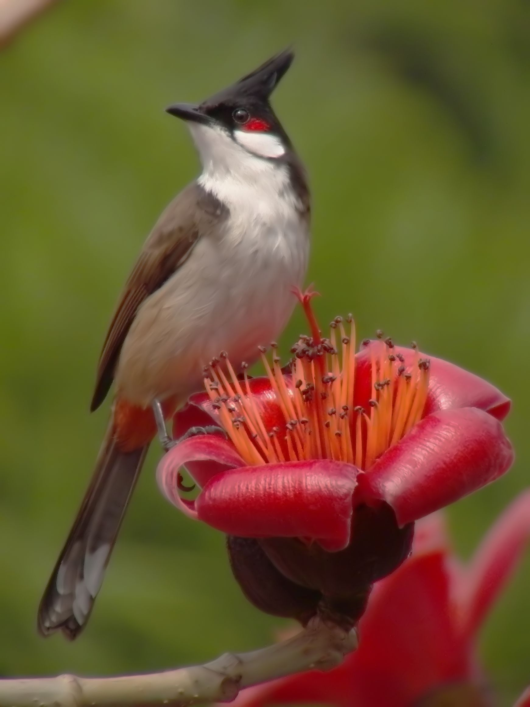 Saw at roadside . Got a video as well.